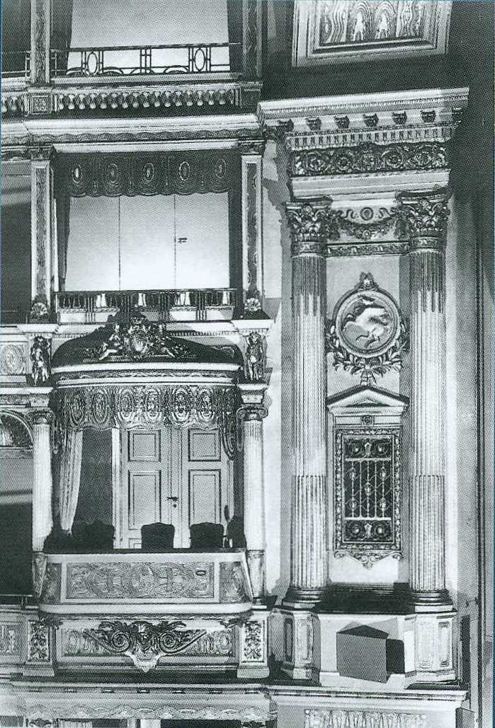 Dresden Alberttheater Zuschauerraum 1905